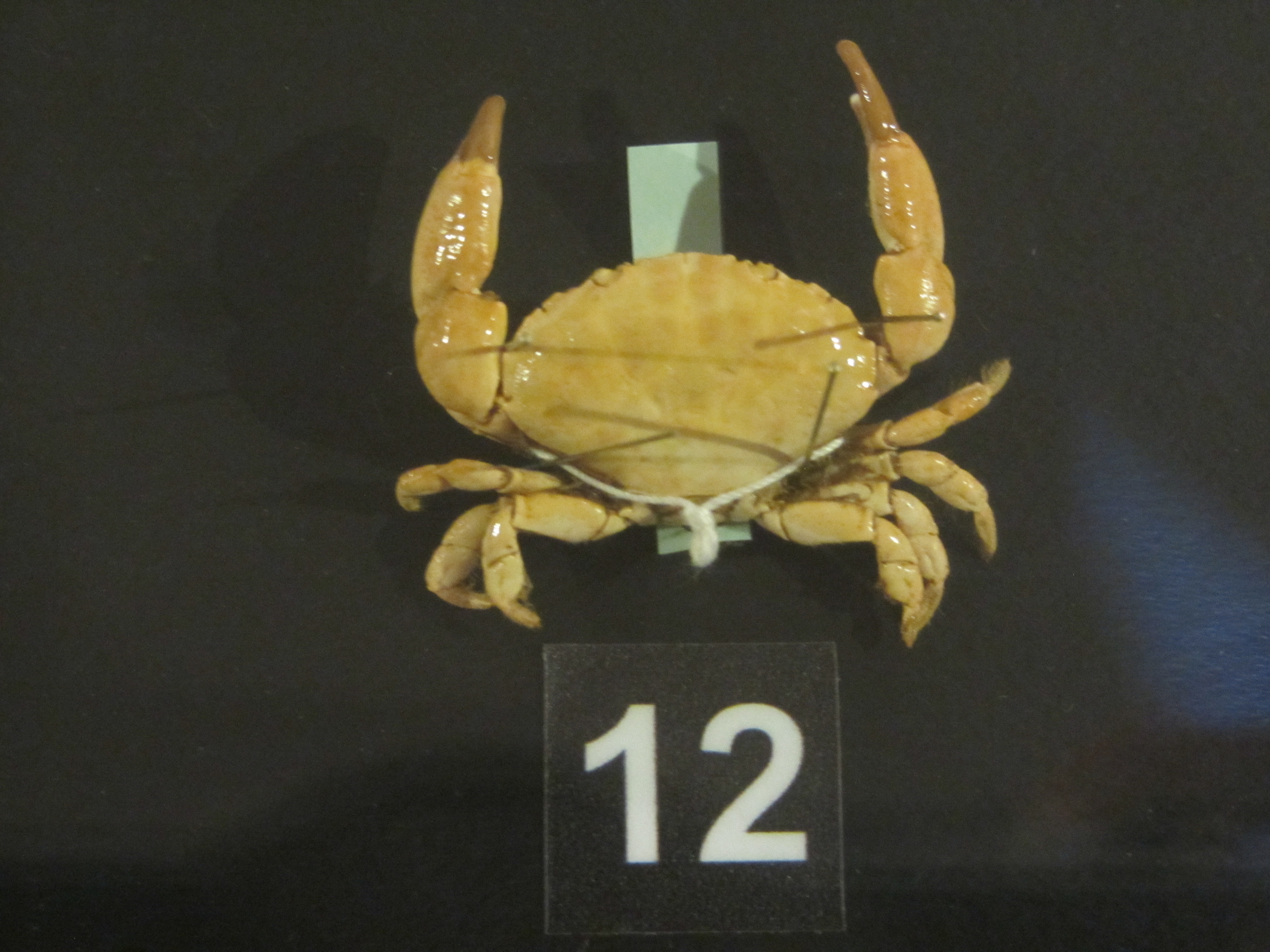 Specimen of Leptodius exaratus